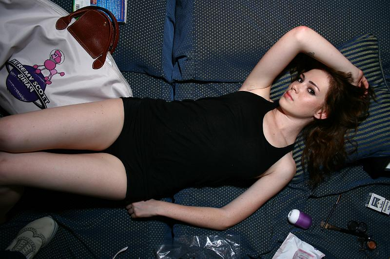 Uffie by icanteachyouhowtodoit